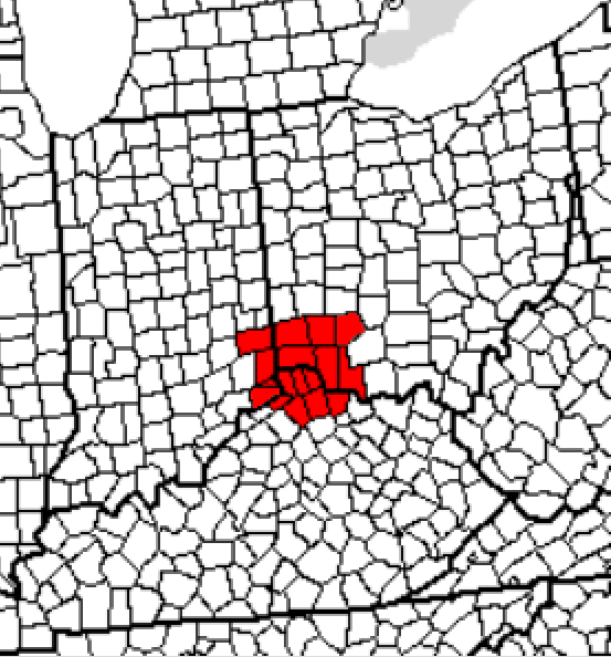 The image describes The Greater Cincinnati area.